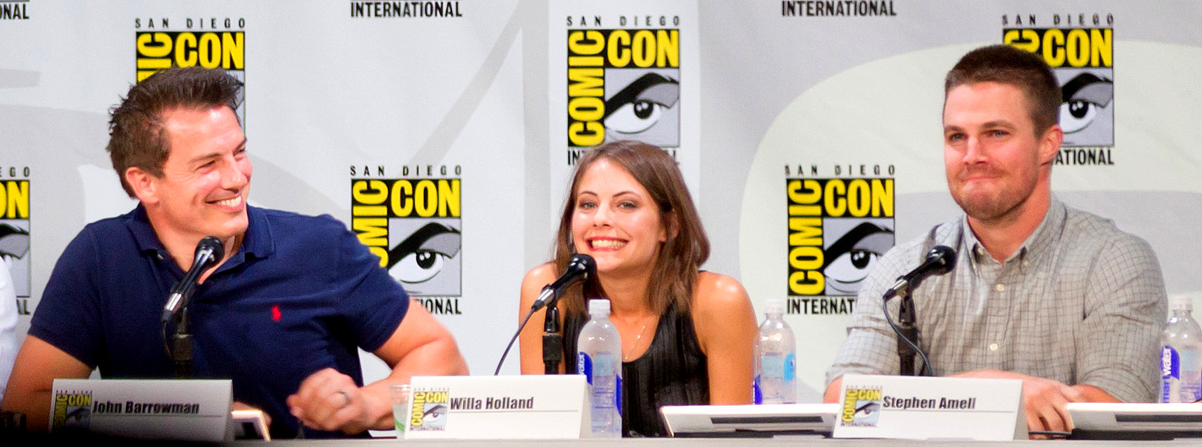 2014 Comic-Con Arrow panel